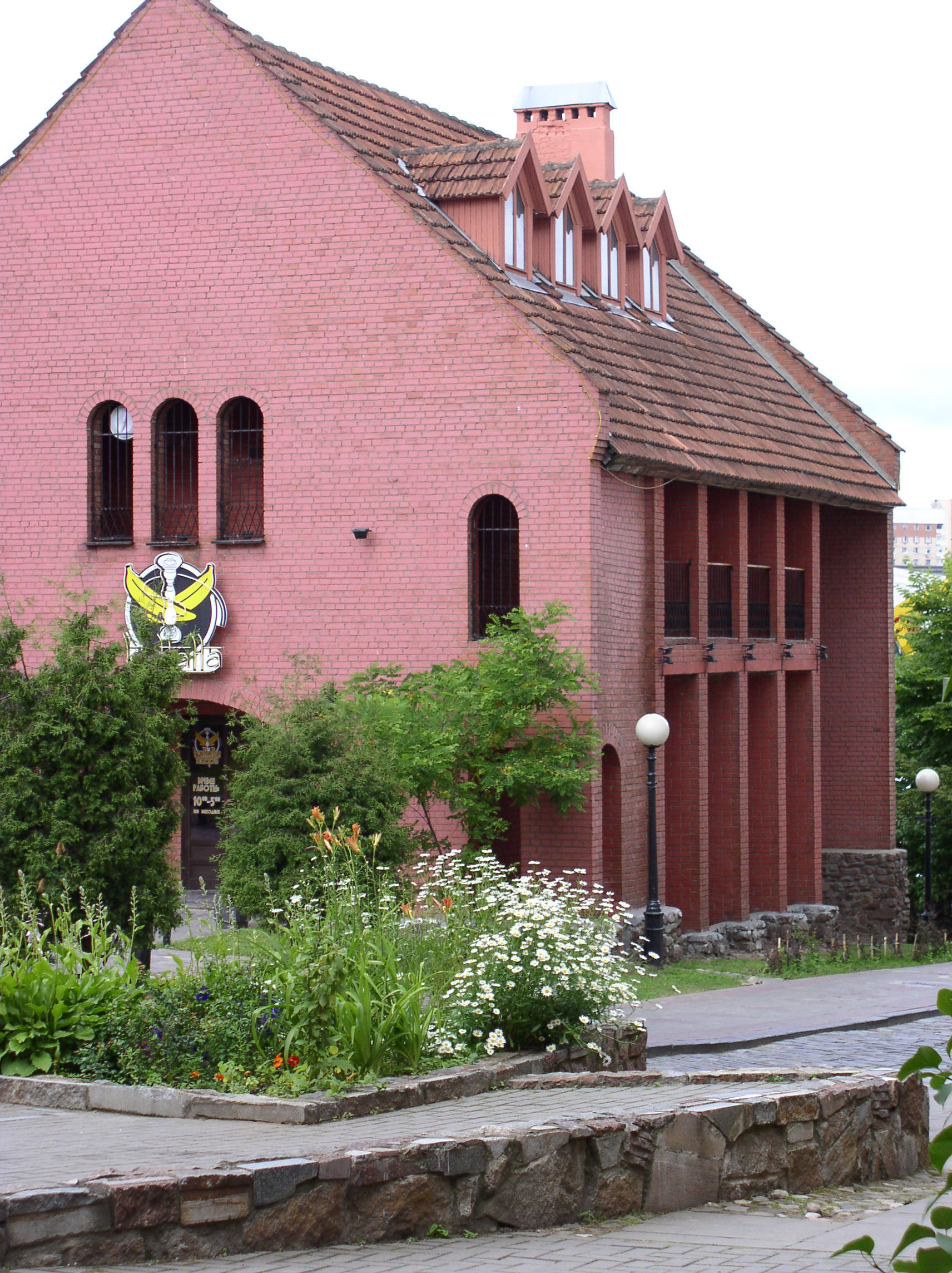 Traetskaye suburb, Minsk, Belarus.